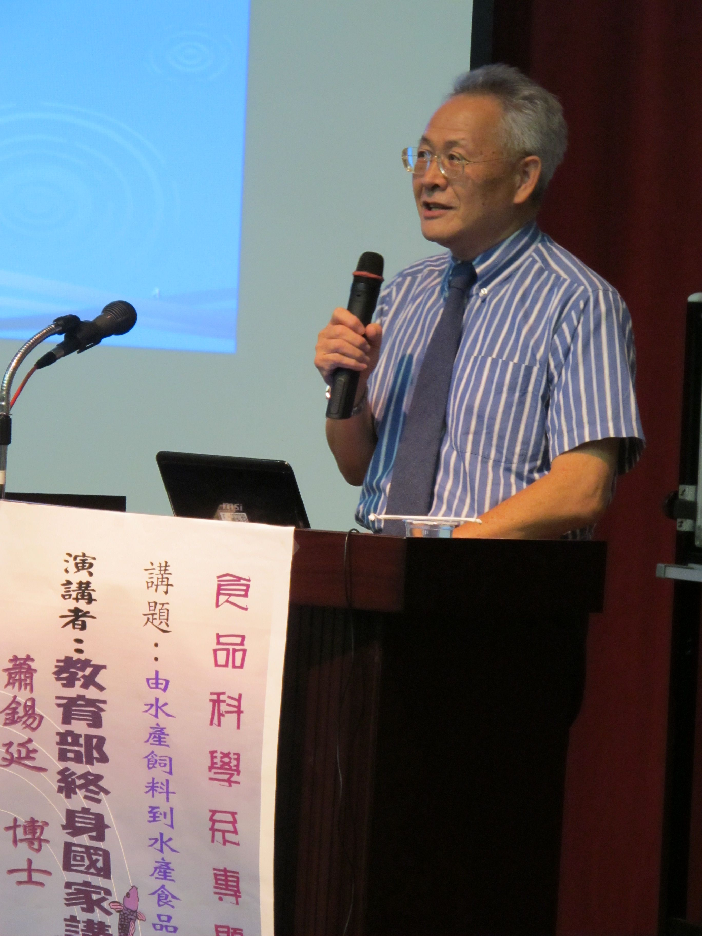 Shi-Yen Shiau, Taiwanese National Endowed Chair Professor, National Research Council Committee Member.